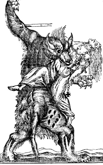 A werewolf devouring a woman. From a XIX c. engraving. From the Mansell Collection, London.